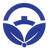 Futaba Yamanashi chapter